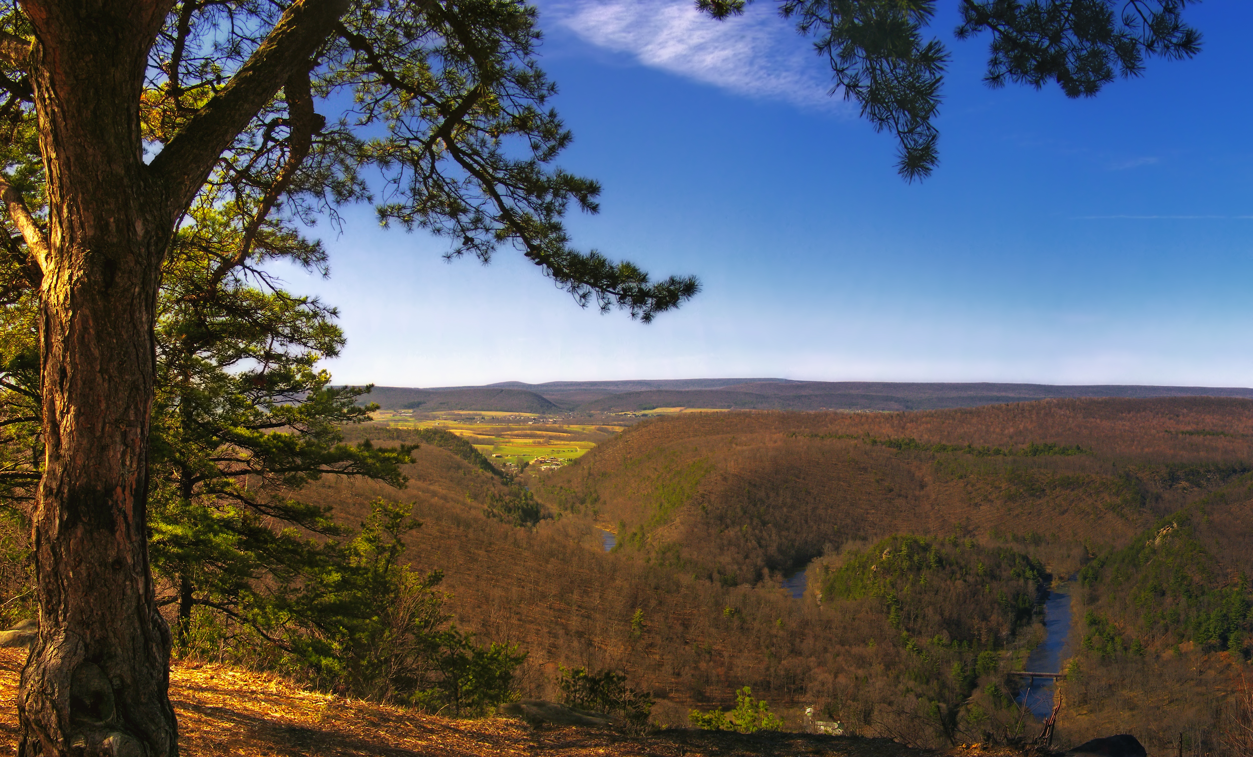 Penns View, Bald Eagle State Forest, Centre County. Penns Creek, visible in the foreground, meanders through the mountains; in the distance is Penns Valley and another series of mountains. The landscape here is typical of the state's ridge-and-valley region.